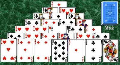 This is a diagram of the game of Pyramid, based on a simulated layout. The image is made in Microsoft Paint and the cards used were based on the SVG Playing Cards.